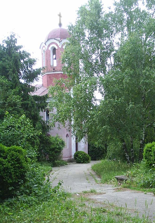 The orthodox church of village Bregare, Bulgaria